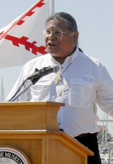 Anthony Pico, PhD, tribal chairman of the Viejas Band of Kumeyaay Indians, speaking at the San Salvador Replica Ceremonial Keel Laying at the Liberty Station, San Diego, California. Detail of a larger photo by Dale Frost.